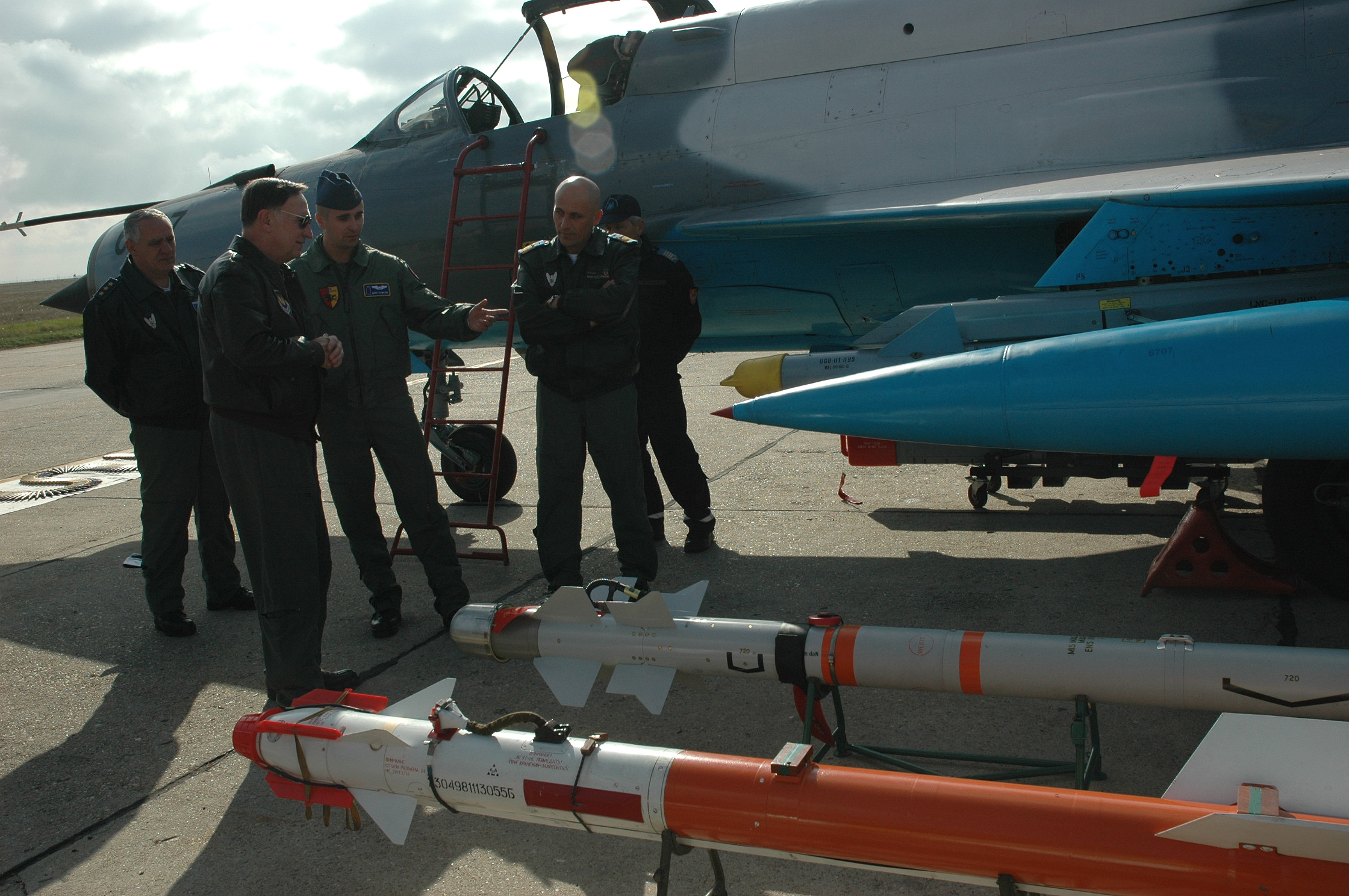 Gen. Tom Hobbins (second from left), U.S. Air Forces in Europe commander, Romanian Lt. Gen. Gheorghe Catrina (left), Romanian Air Force Chief of Staff, and Romanian CDR Dan Buciuman, Festesti Air Base commander, receive a briefing on MiG-21 munitions by Romanian First Lieutenant Mihaita Marin during the general's base visit Oct. 20.